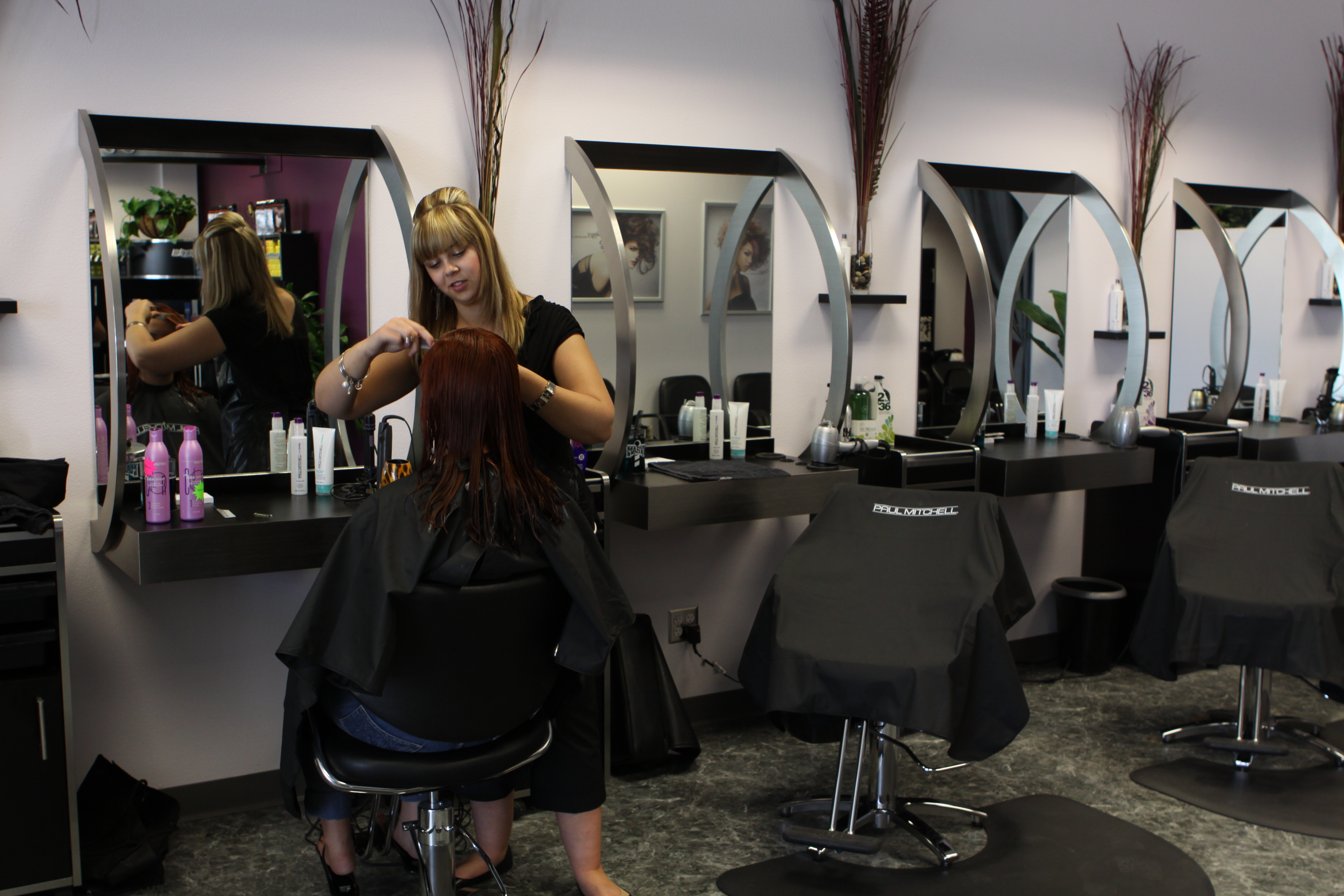 Chelsea Wilton, Onyx Salon stylist , trims Melissa Syring's hair at the new salon aboard Camp Pendleton, July 22. The newly remodeled facility is located at Pacific Plaza, near Roberto's Mexican restaurant. Services include basic and style cuts, perms, relaxers, conditioning, waxing, coloring and shampoo treatments from their exclusive "r3" menu.